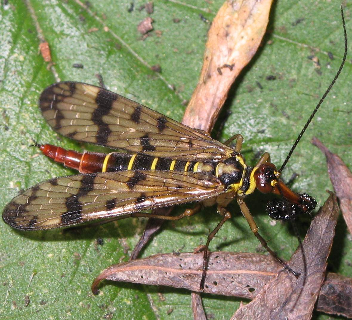 Author: soebe Date: July 10, 2005 Location: Eckernförde, Northern Germany